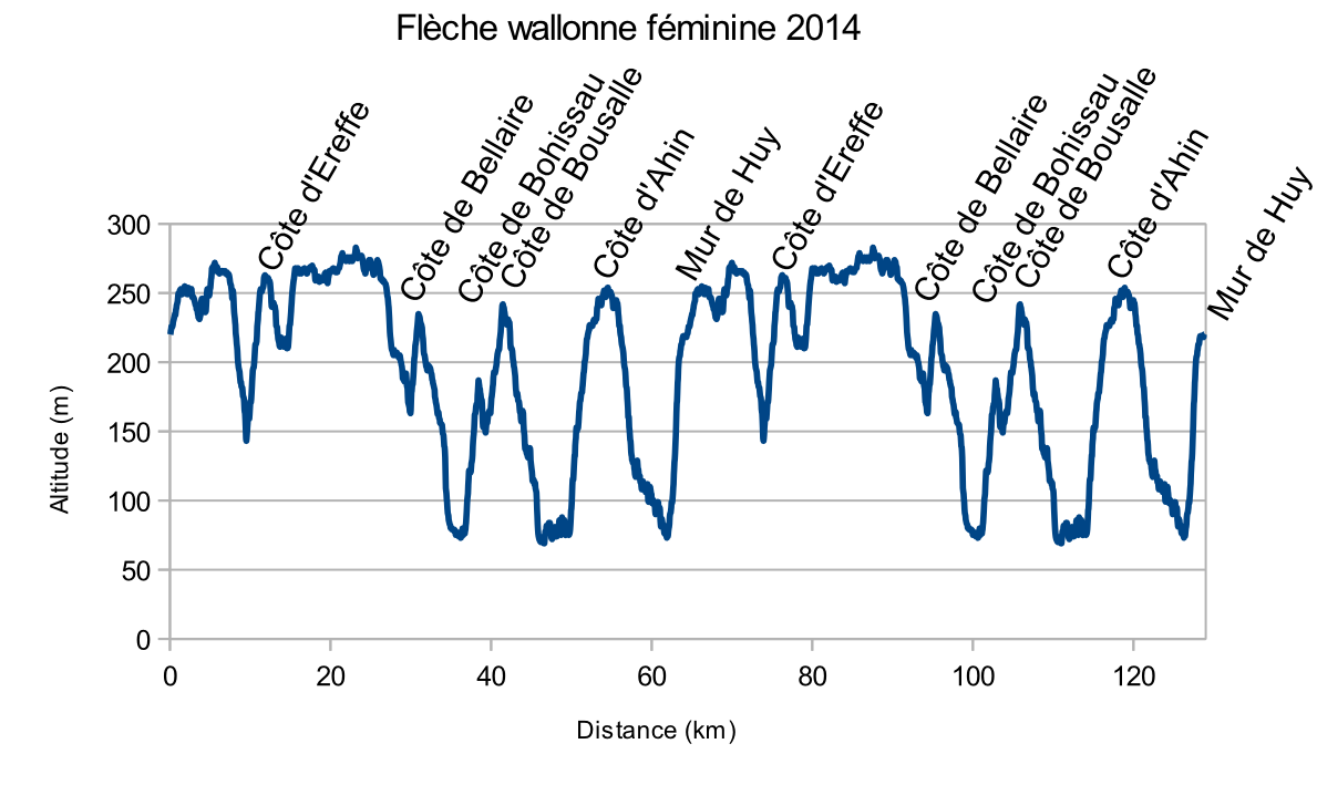 Profile of the Flèche wallonne féminine 2014.